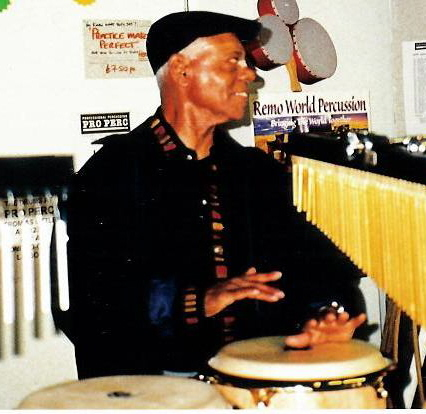 Photograph of Armando Peraza taken by Simon Leng in 1999. Copyright owned by Simon Leng